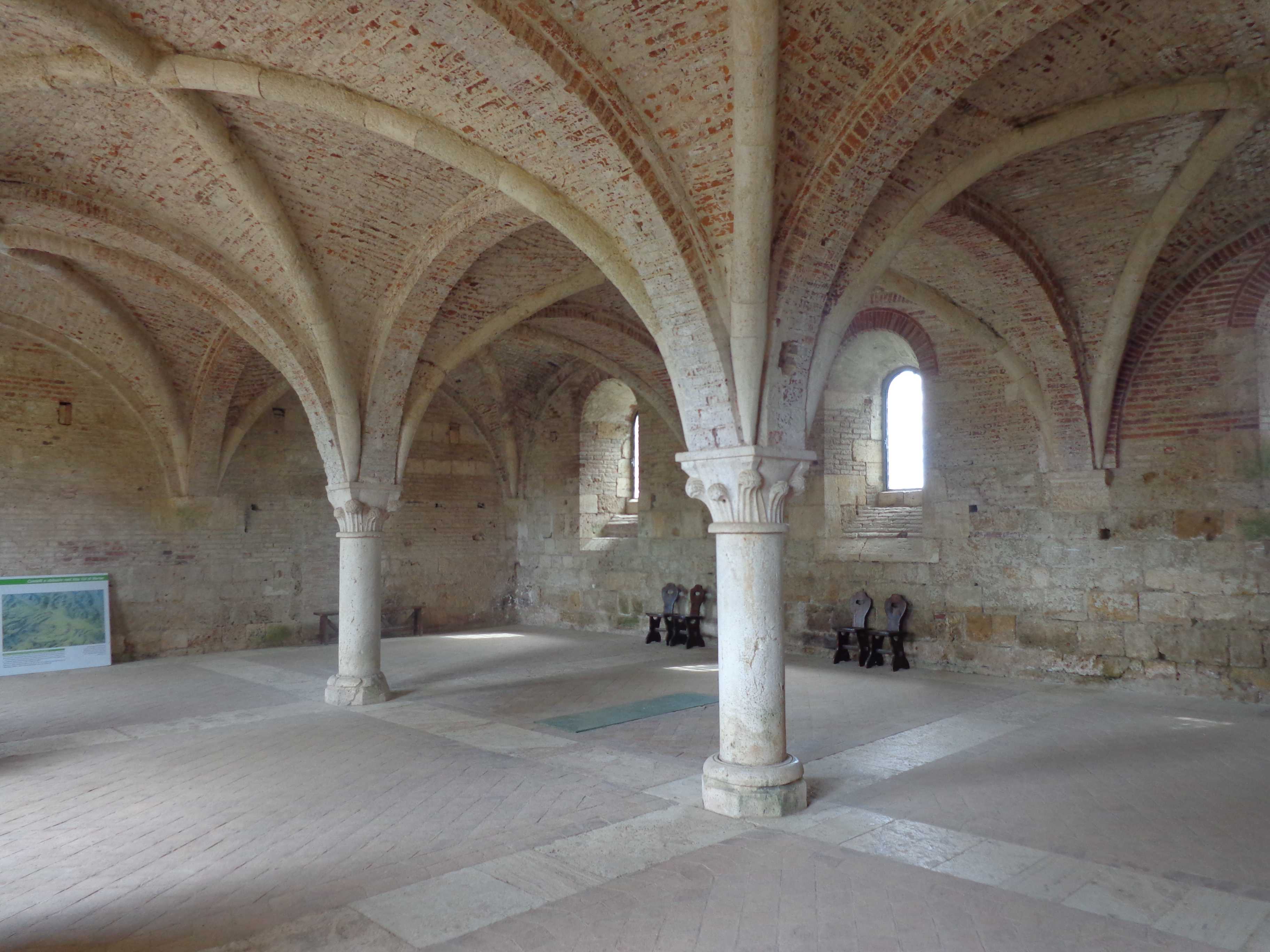 San Galgano abbey, Siena